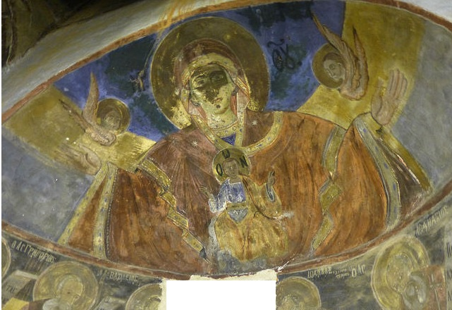 Babchor Church Fresco